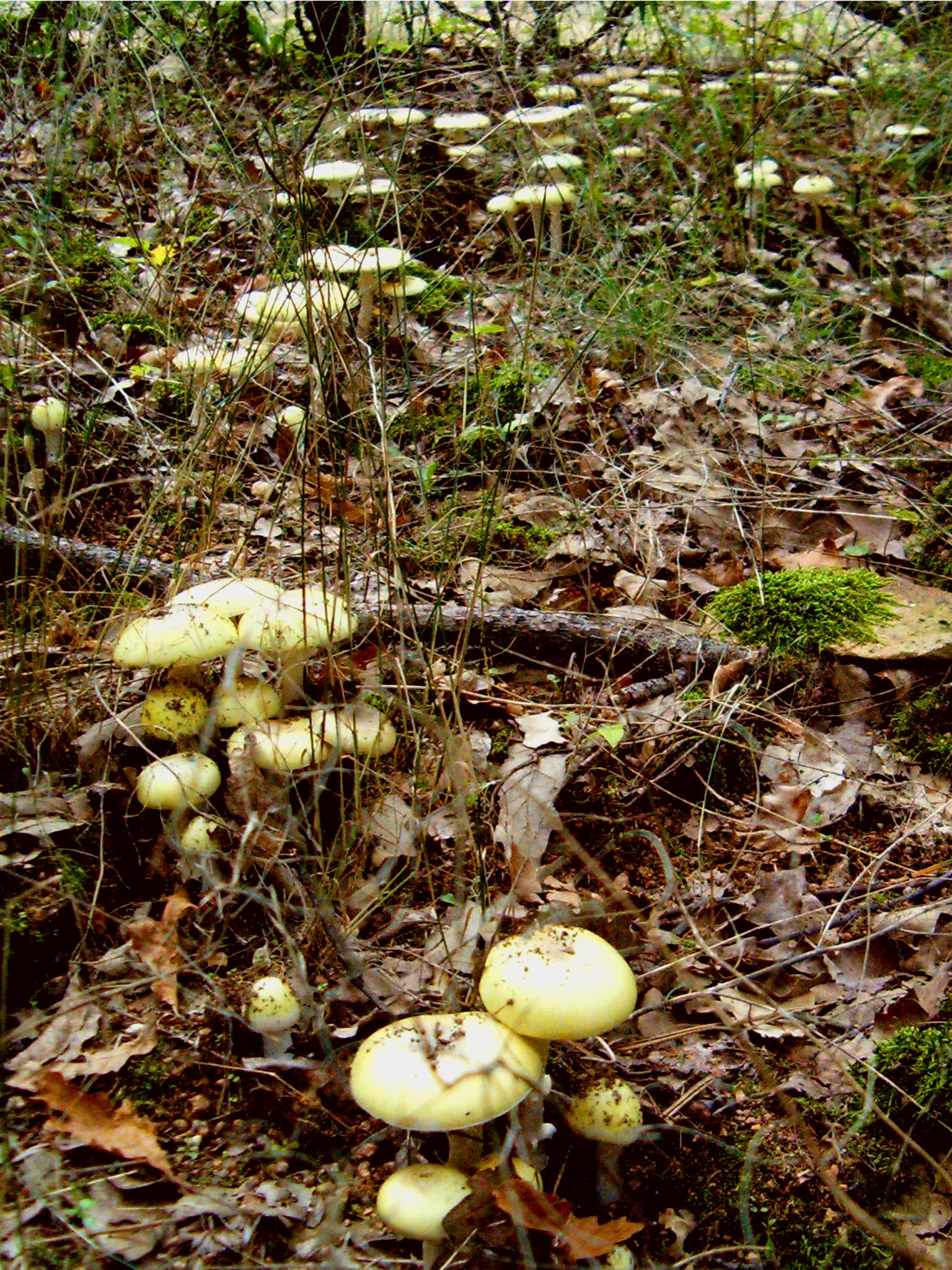 Amanita phalloides in mass (Velence Mts., Hungary); folyásban termő gyilkos galóca (Velencei-hg.)